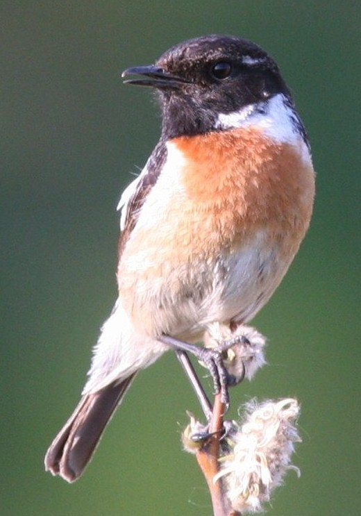 European Stonechat - Cracow, 2007